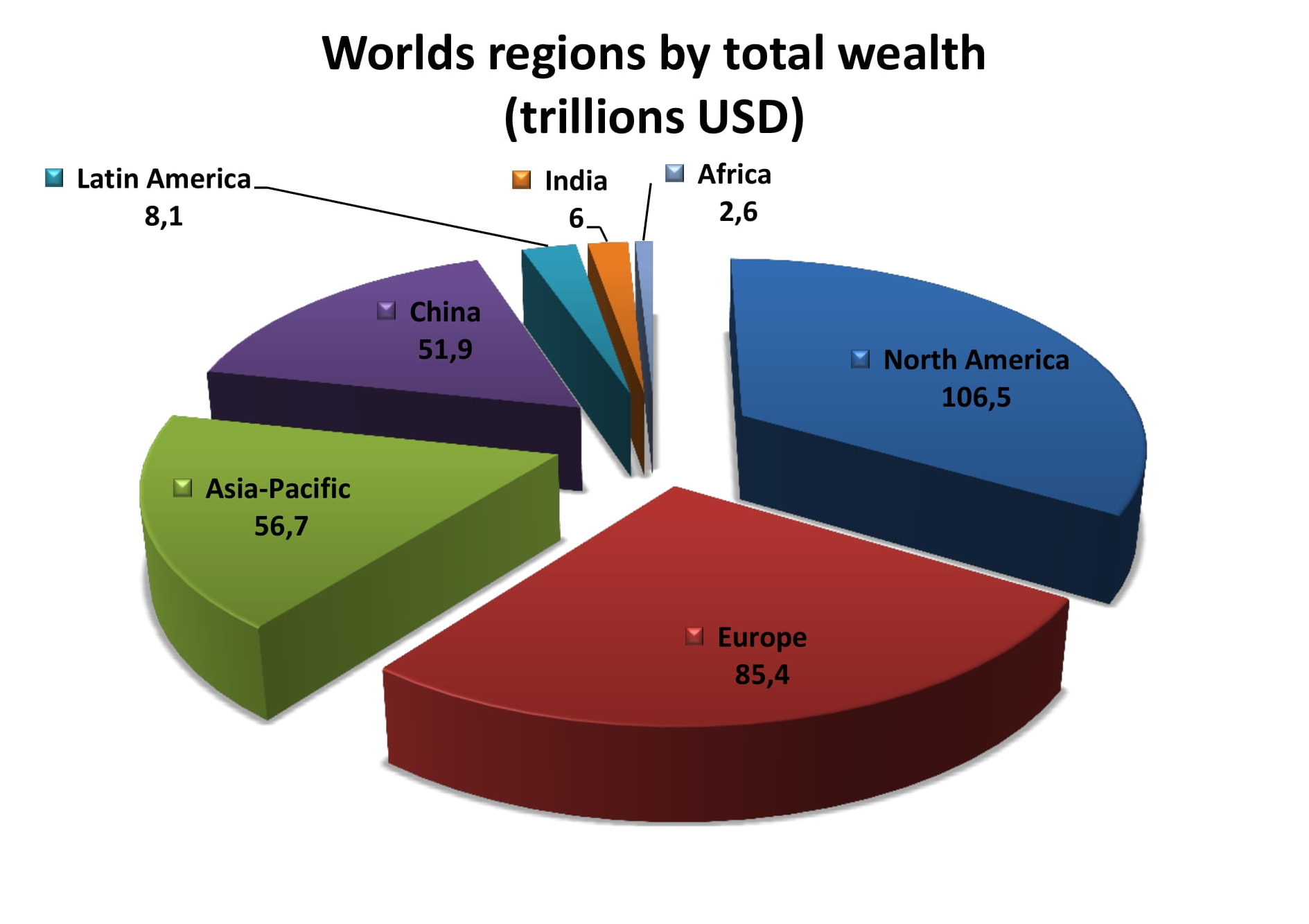 Worlds regions by total wealth(in trillions USD), 2018